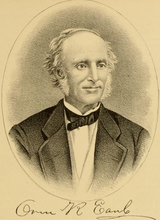 Portrait of New York state assemblyman Oren R. Earl (1813-1901)